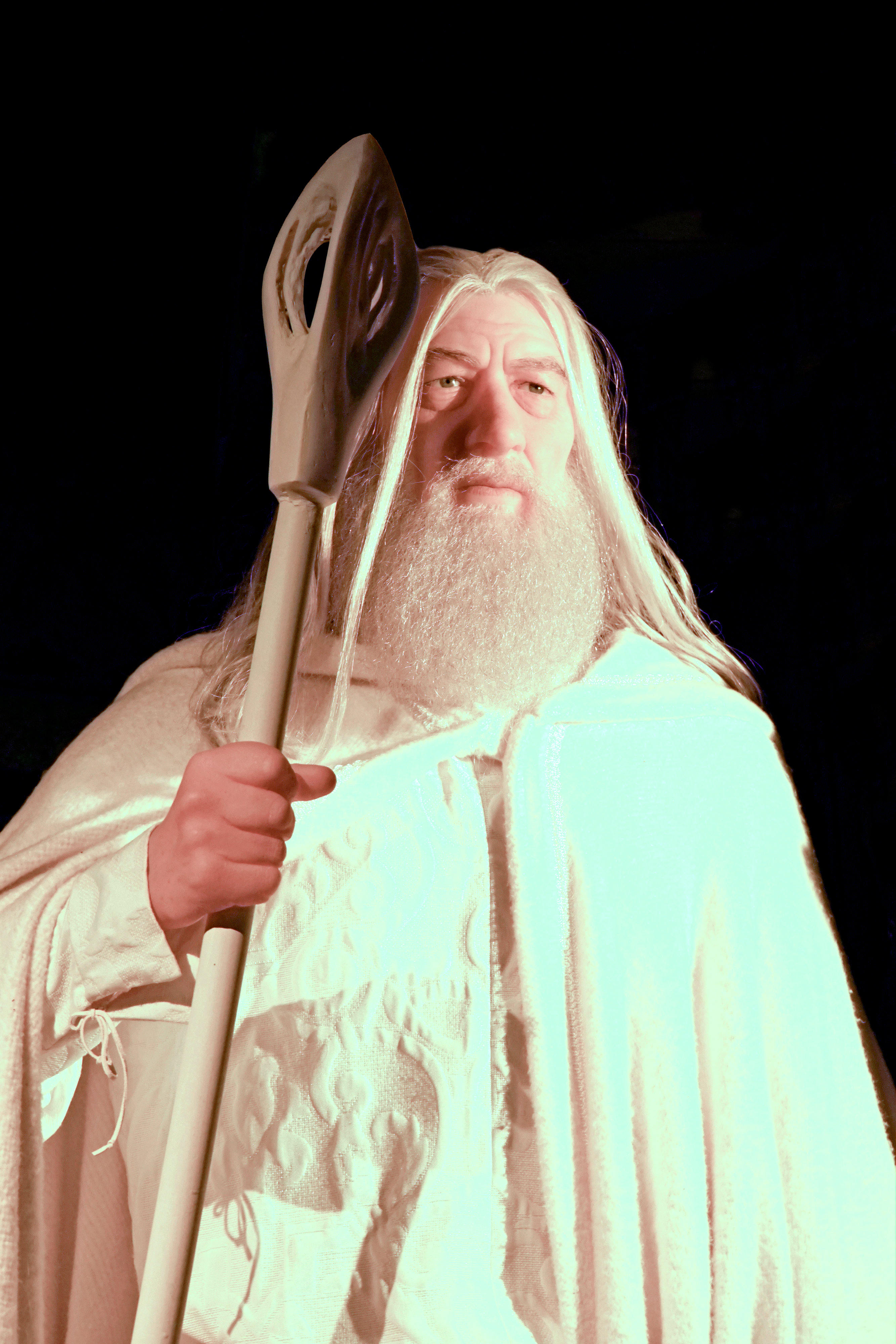 PLEASE, NO invitations or self promotions, THEY WILL BE DELETED. My photos are FREE to use, just give me credit and it would be nice if you let me know, thanks. Gandalf